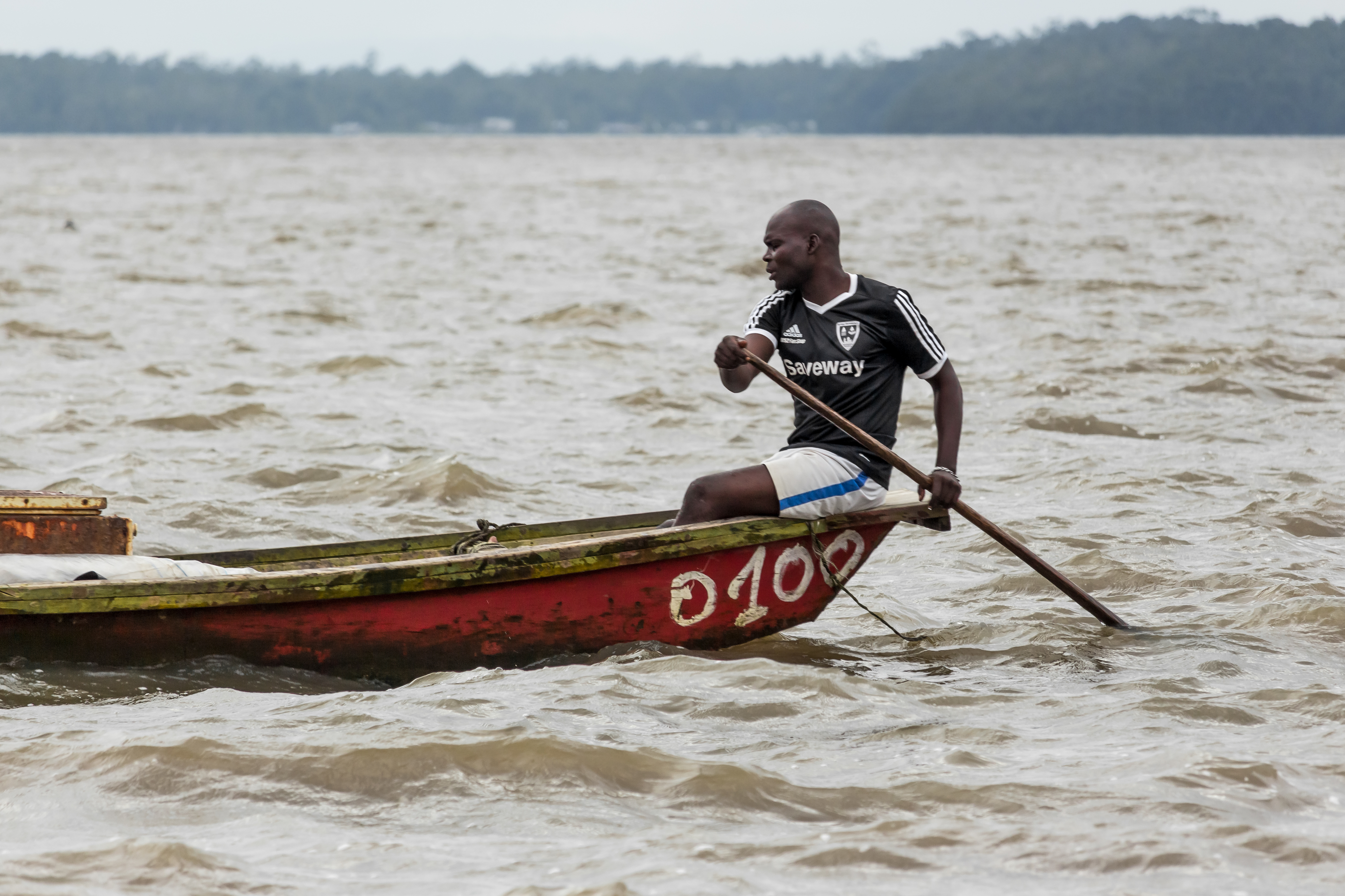 Man paddling his canoe as seen from Bonassama. This is an image with the theme "Africa on the Move or Transport" from: Cameroon